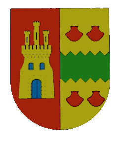 this is pano's coats of arms